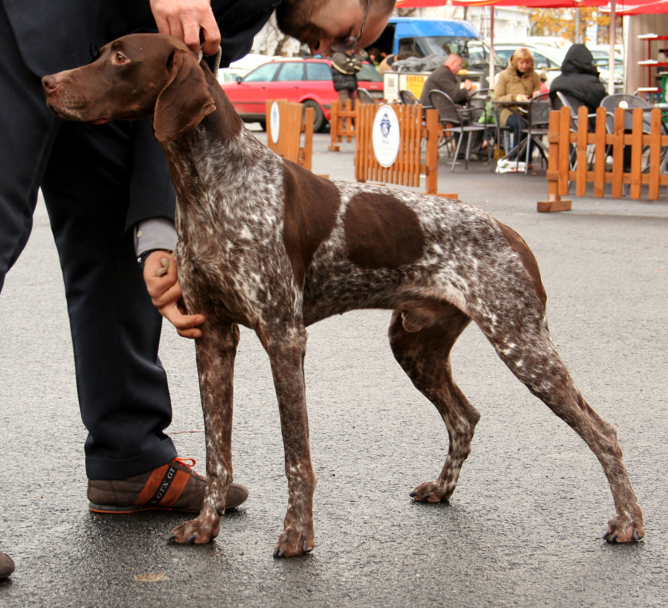 Pyrenean Pointer at the World Dog Show in Poznań